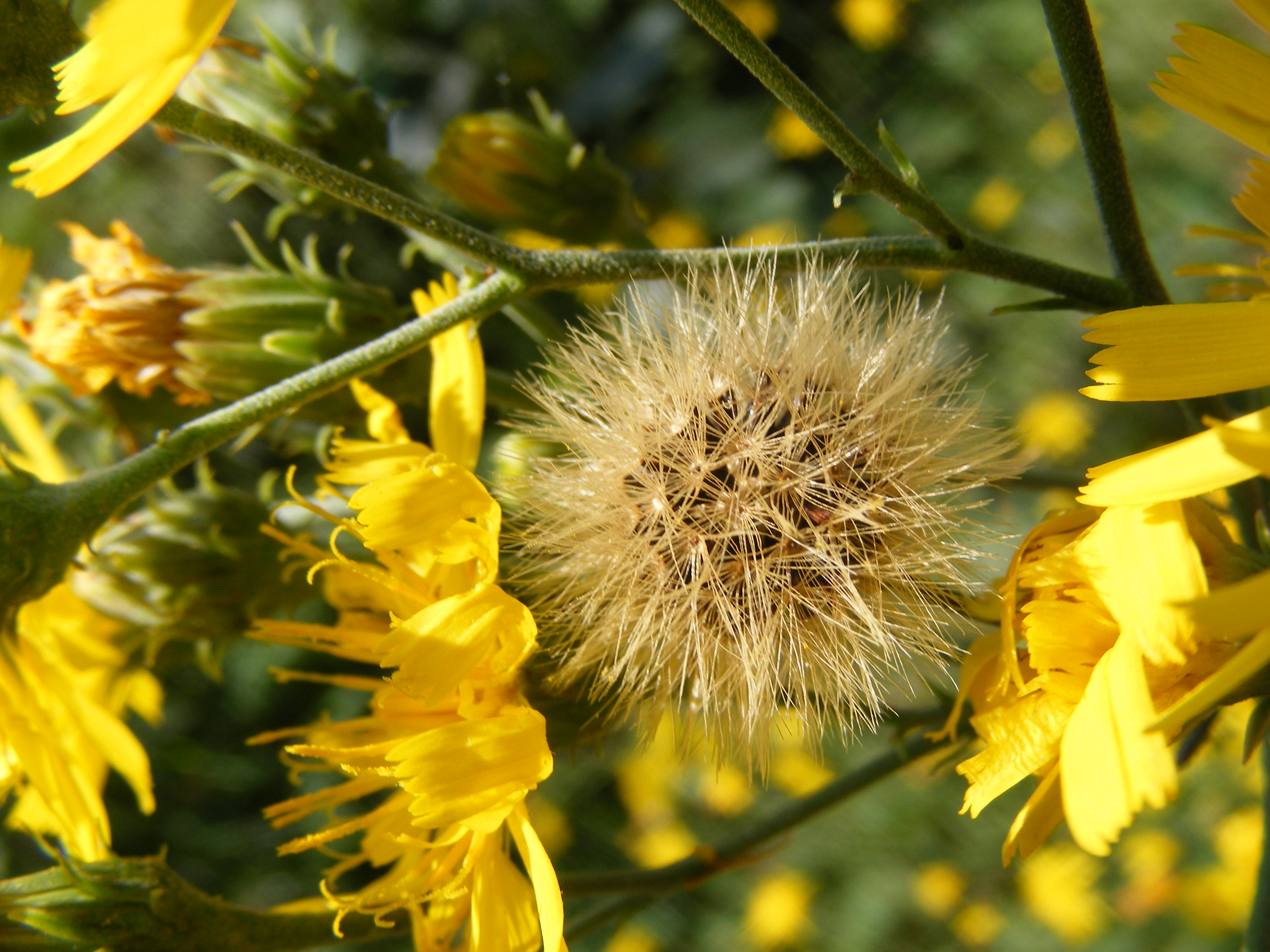 This photo shows Hieracium umbellatum